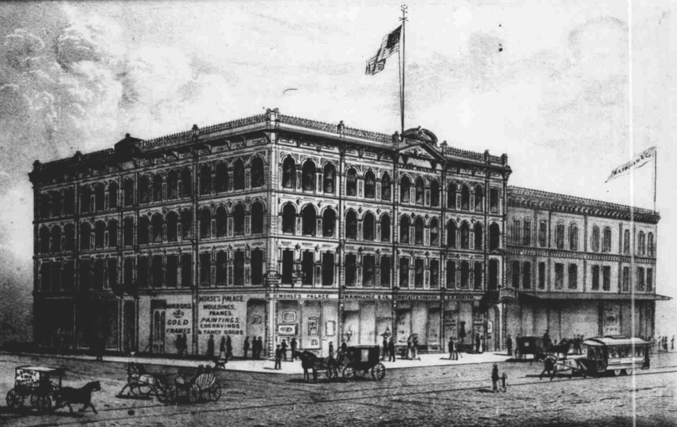 The Labbe Block in Portland, Oregon from the January 1, 1884 edition of The West Shore